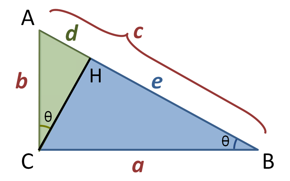 Similar triangles for Pythagoras' theorem